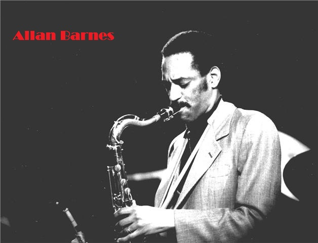 A 1981 picture of jazz performer Allan C Barnes performing.